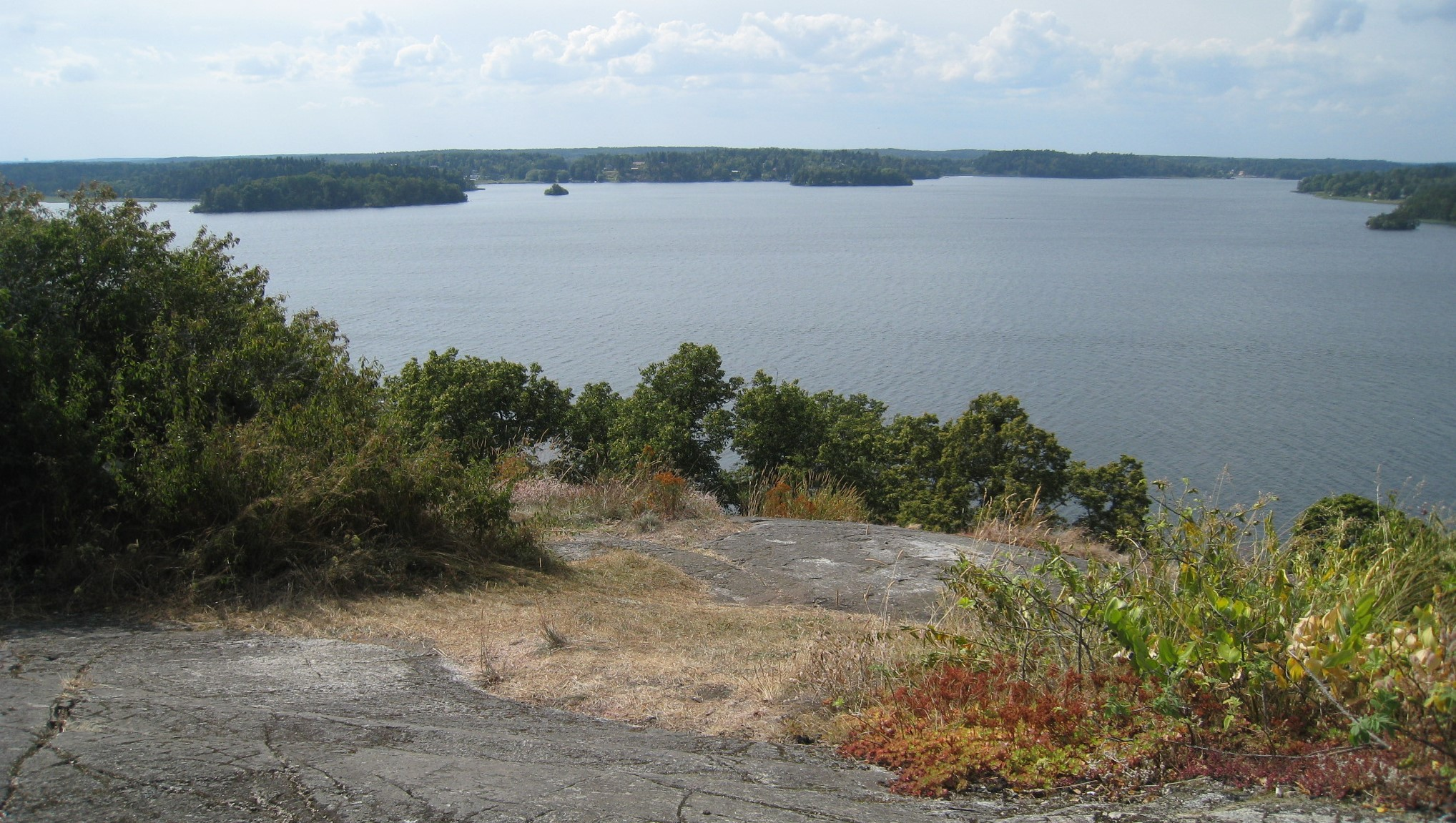 Gåseborg hillfort in Görväln 's nature reserves in Järfälla Municipality, western Stockholm. View over the sea Mälaren.